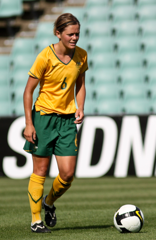 Amber Neilson playing for the Australian Women's Football Team against Italy in a friendly international.